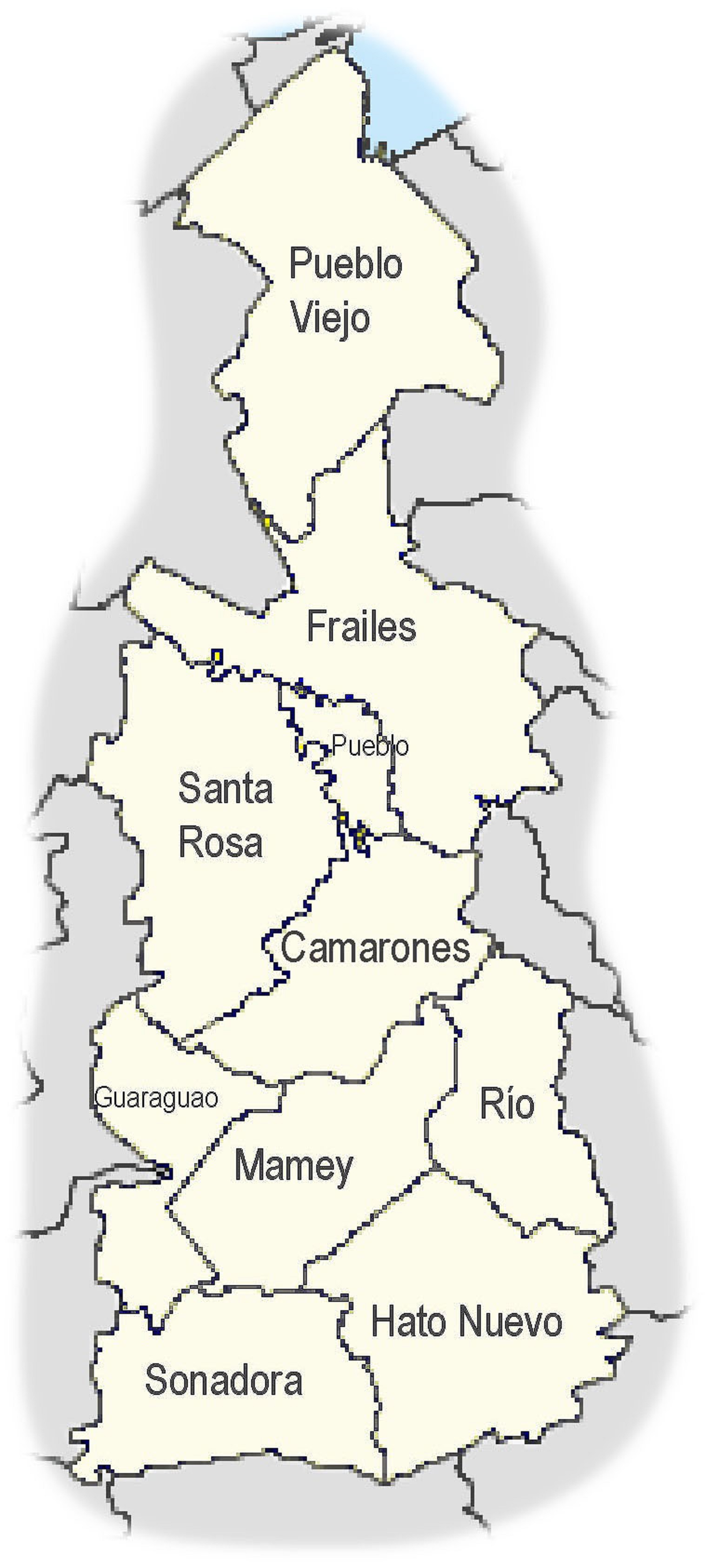 Barrios of Guaynabo, Puerto Rico locator map with feathered photoshop effect